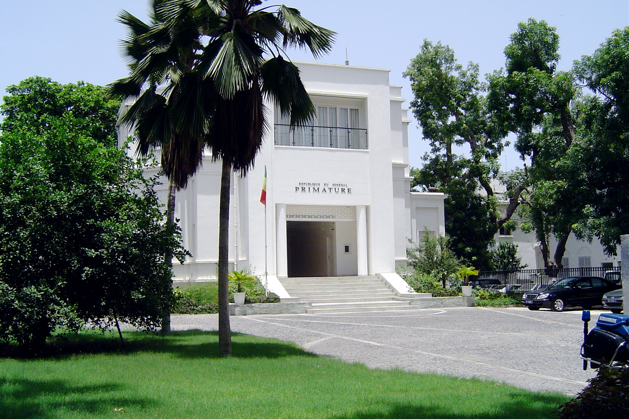 Prime minister residence in Dakar (Senegal)